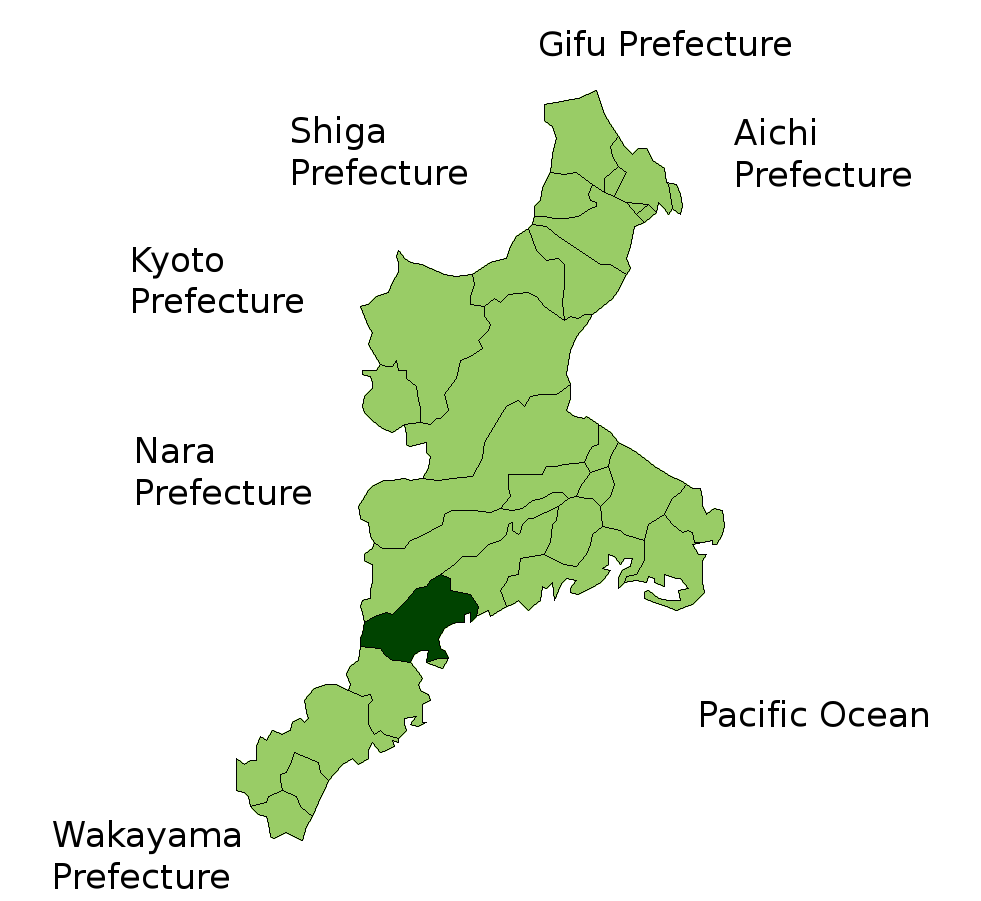 Location Map of Kihoku in Mie Prefecture, Japan